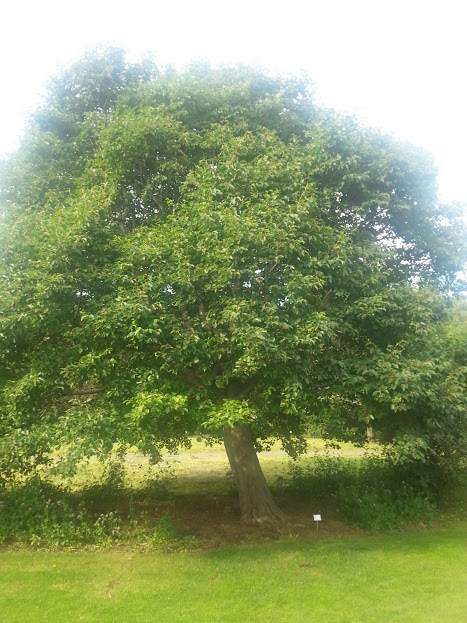 Alnus incana